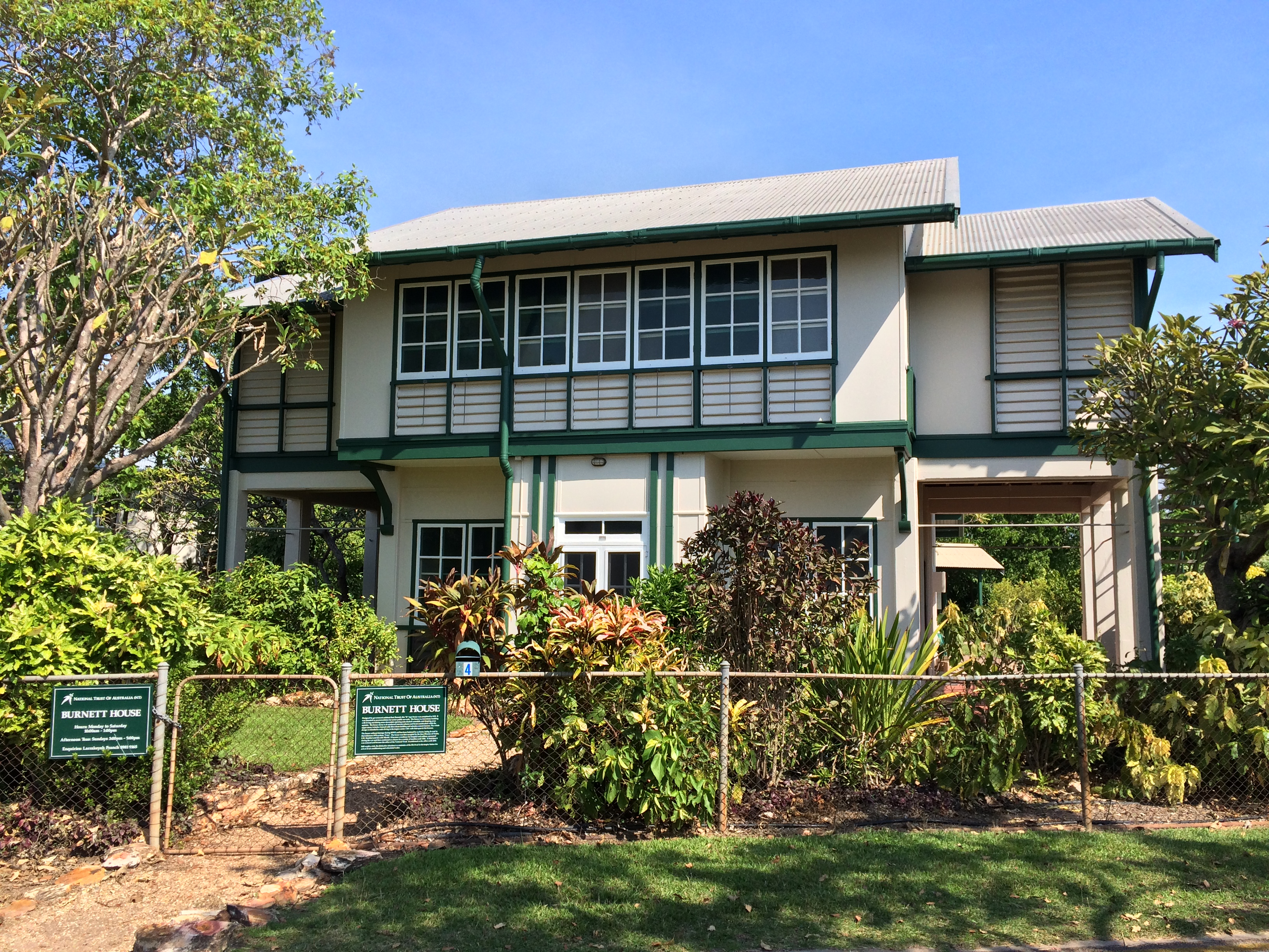 Burnett House at Myilly Point in the Darwin suburb Larrakeyah.